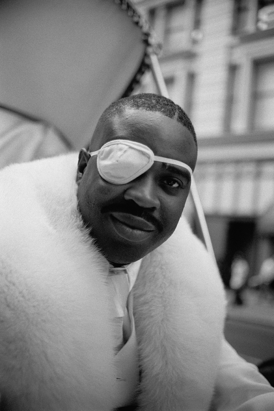 New York 1997